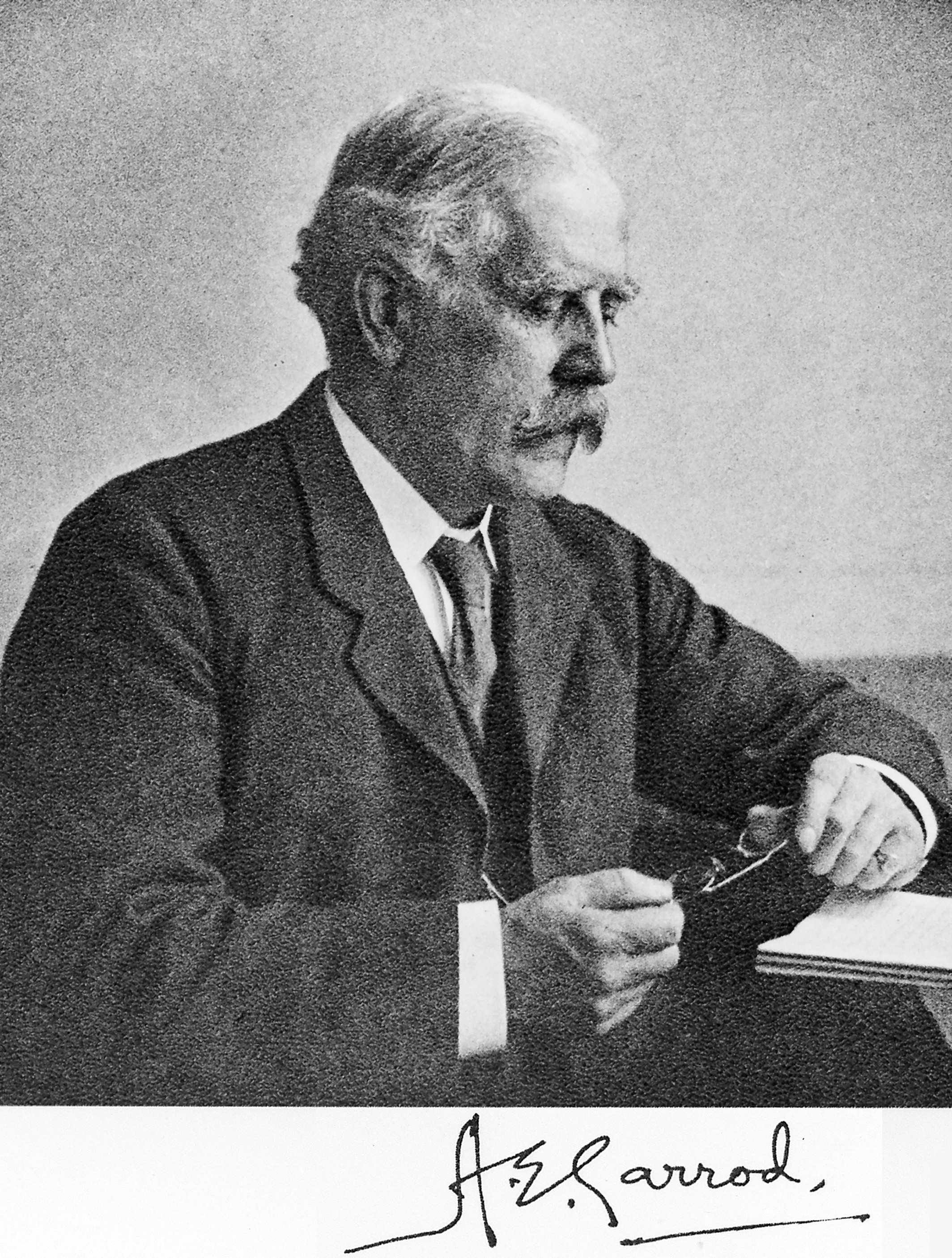 Archibald Edward Garrod from: "Archibald Edward Garrod", Obituary notices of Fellows of the Royal Society, 1936-1938, volume 2, pages 225-228; facing page 225